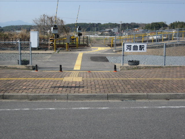 Kawano Station